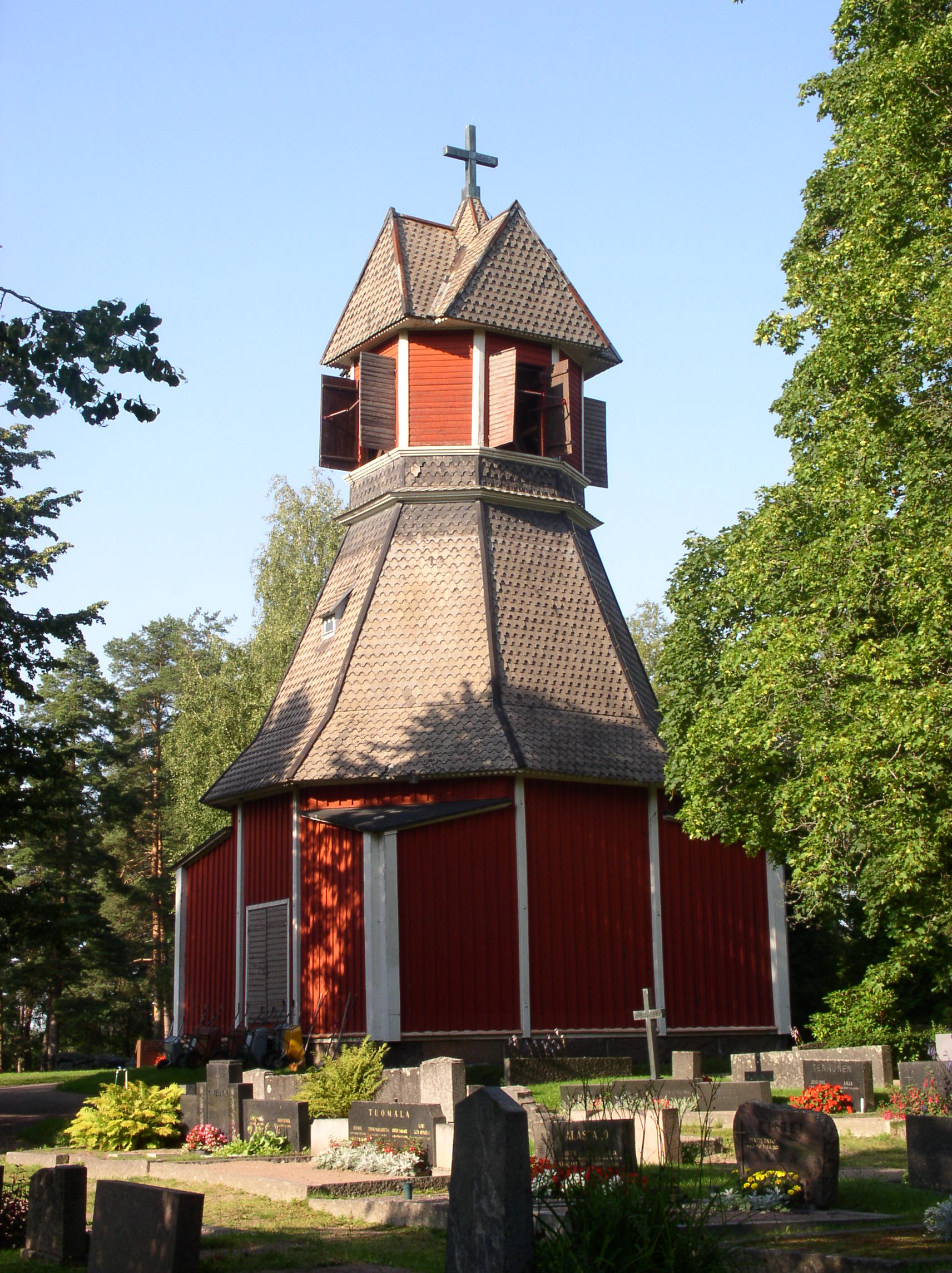 Iitti church bell tower in Iitti, Finland.